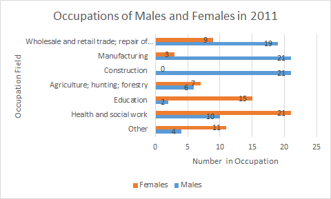 Occupation structure of males and females in 2011